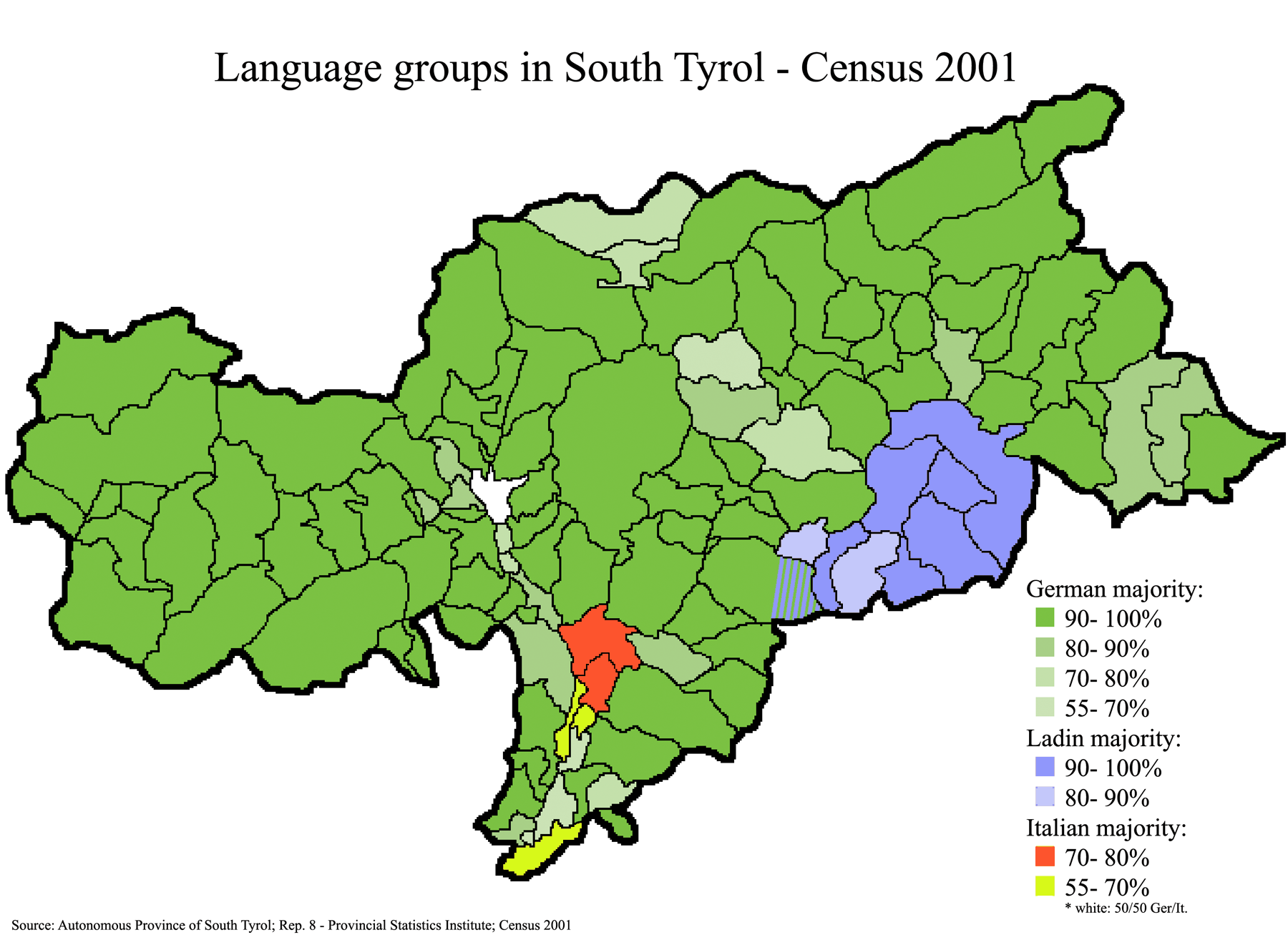 Majority languages in the South Tyrolean municipalities (communes) according to the last census of 2001. Green: German (102 municipalities) Blue: Ladin (8 municipalities) Red: Italian (5 municipalities)